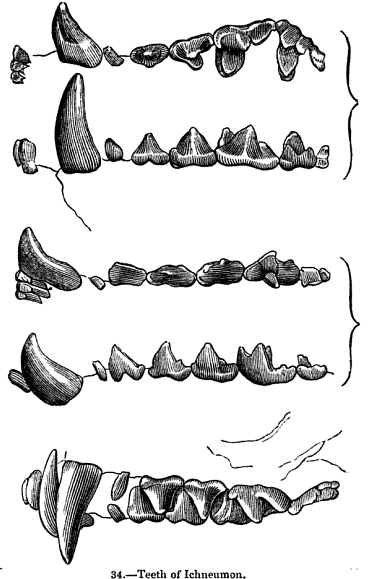 Teeth of an Egyptian mongoose